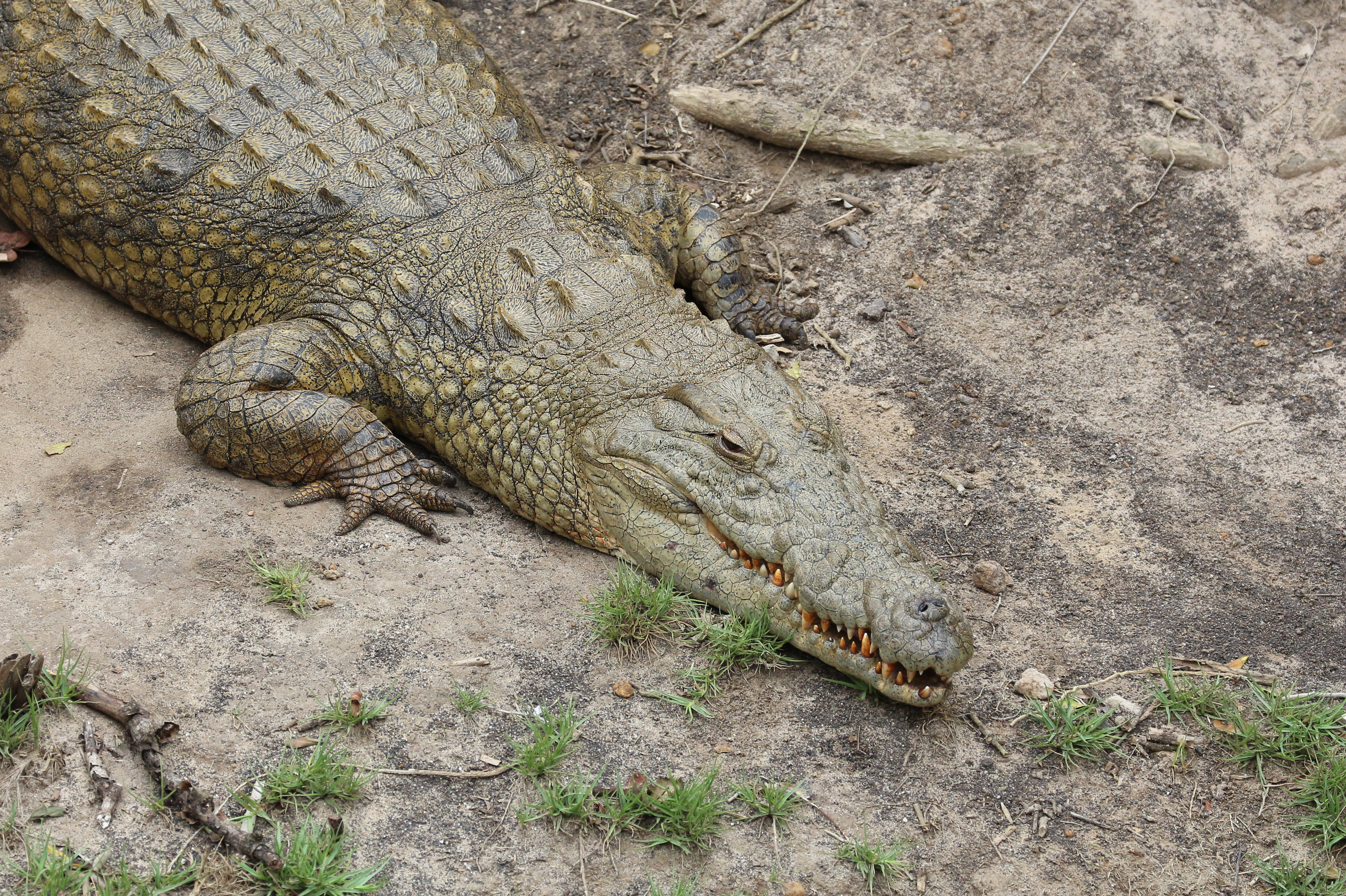 Nile crocodile (Crocodylus niloticus) in Lake St Lucia estuary, South Africa